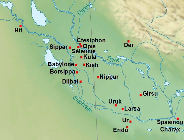 Location map of the main cities of Lower Mesopotamia during the First Millennium BC.